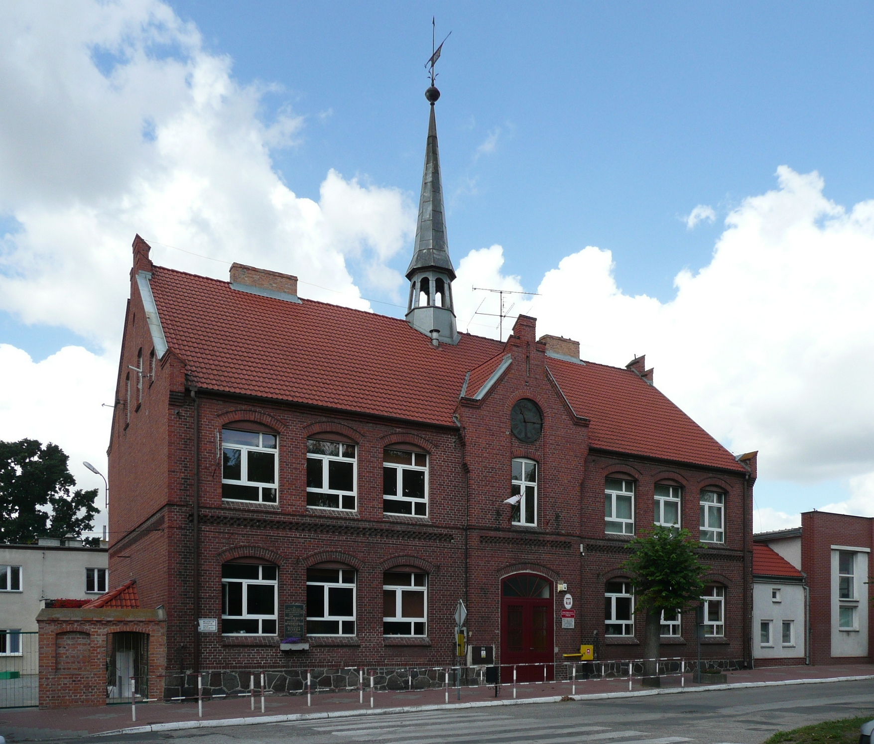 Primary school no. 1 in Barcin, Poland.